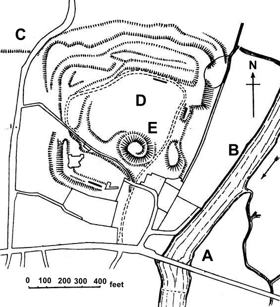 A plan of Wallingford castle, digitally tidied up and relabelled by hchc2009